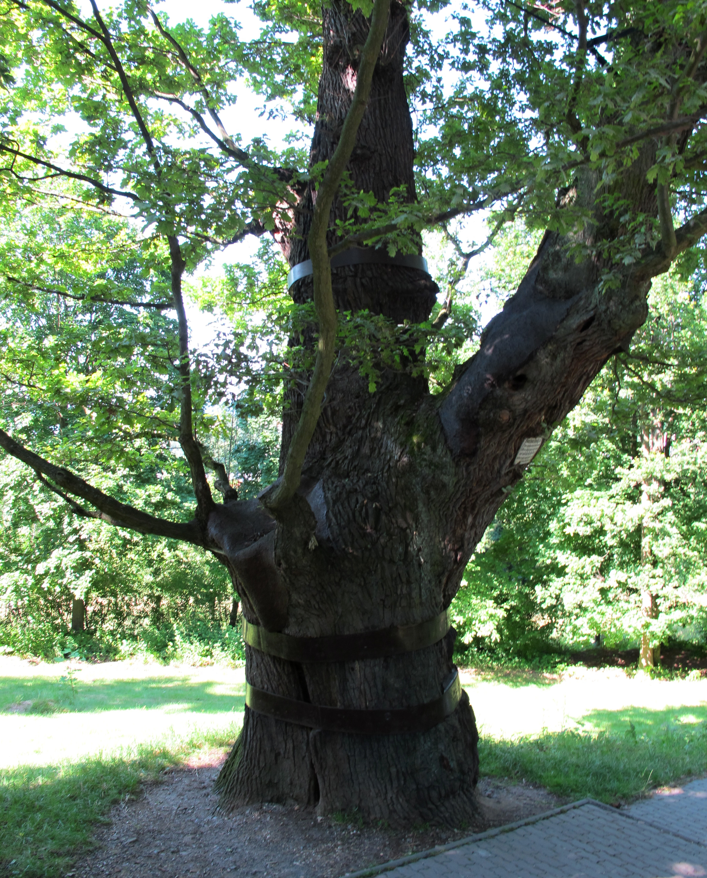 Protected tree in Příbram